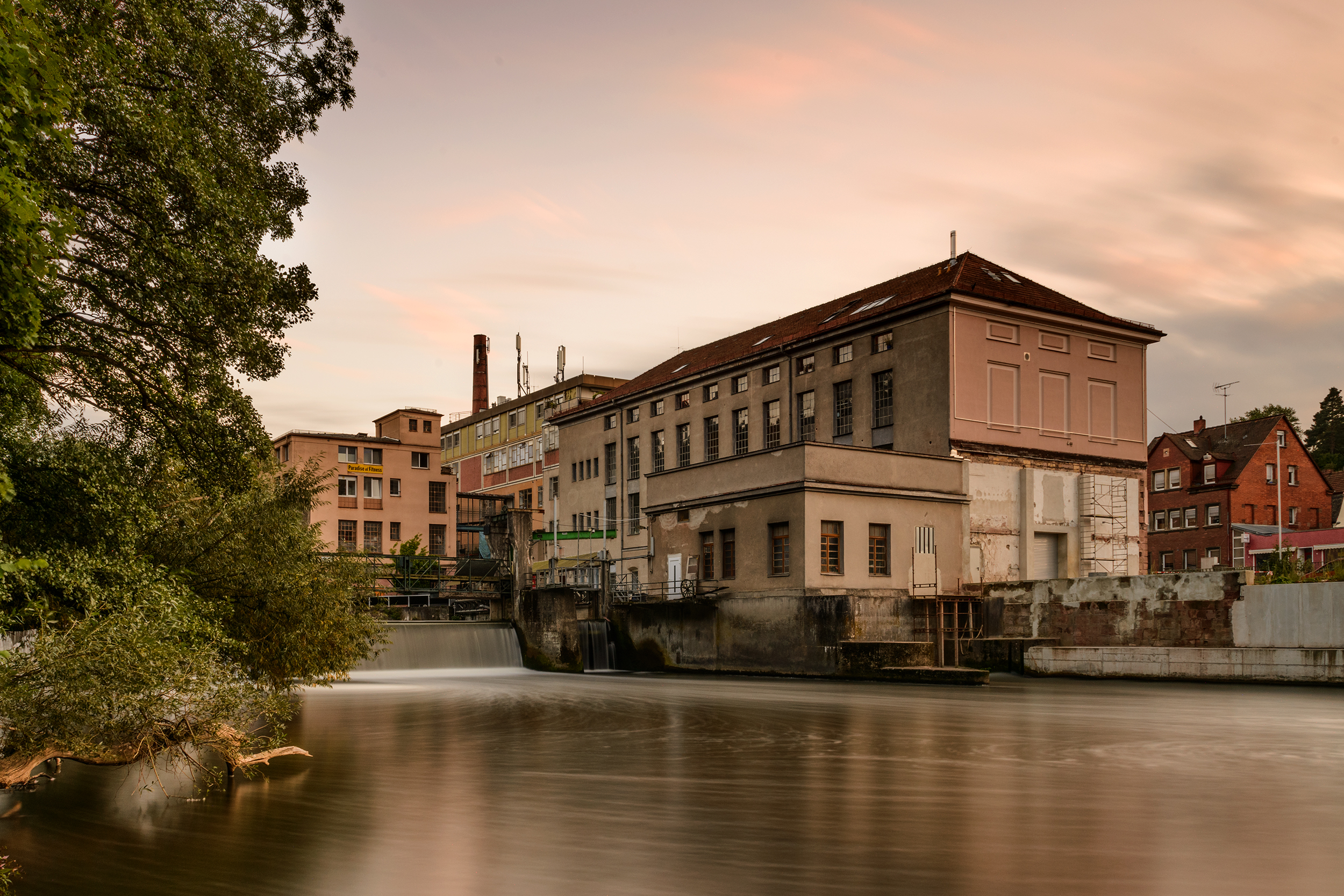 This is a photograph of an architectural monument.